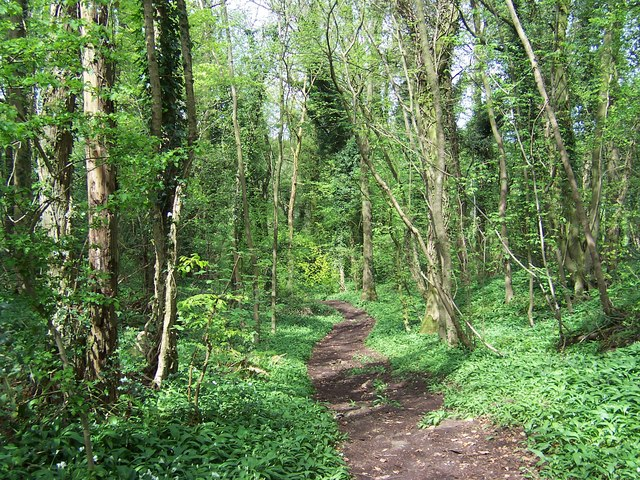 Caswell Wood. Offa's Dyke National Trail plunging through woodland, which for northern walkers has lasted for some time. The ancient earthworks are visible under trees and intense vegetation